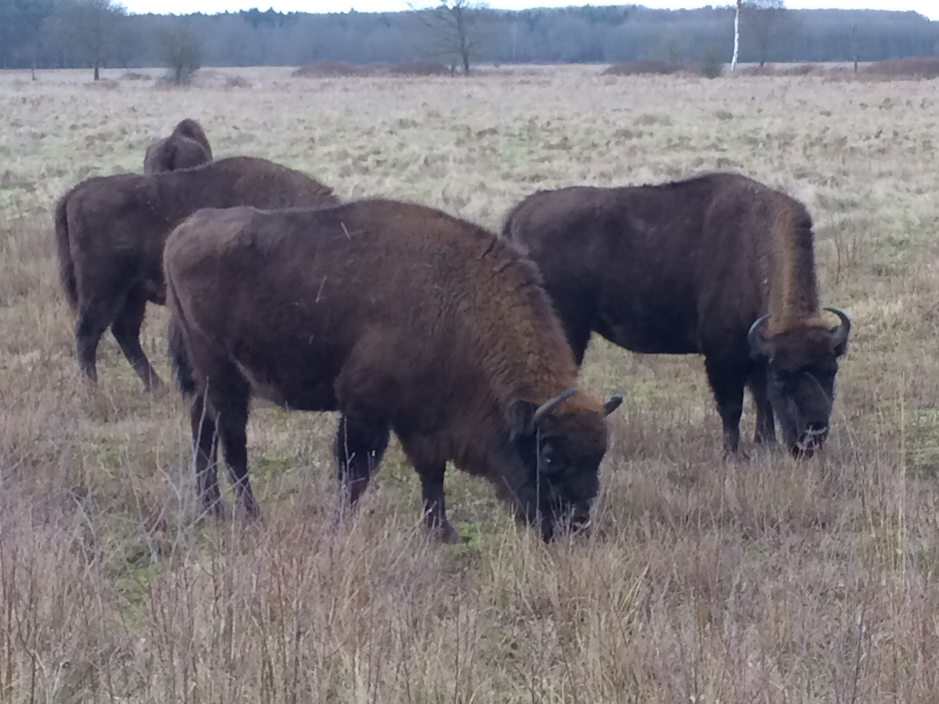 European bison (Bison bonasus) at Maashorst, Netherlands, 2 March 2017.